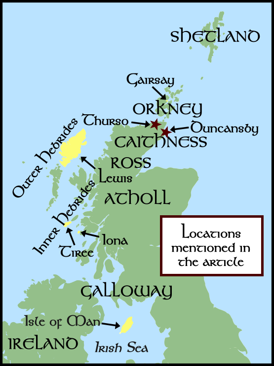 Map showing some of the locations mentioned in the article concerning Ljótólfr.